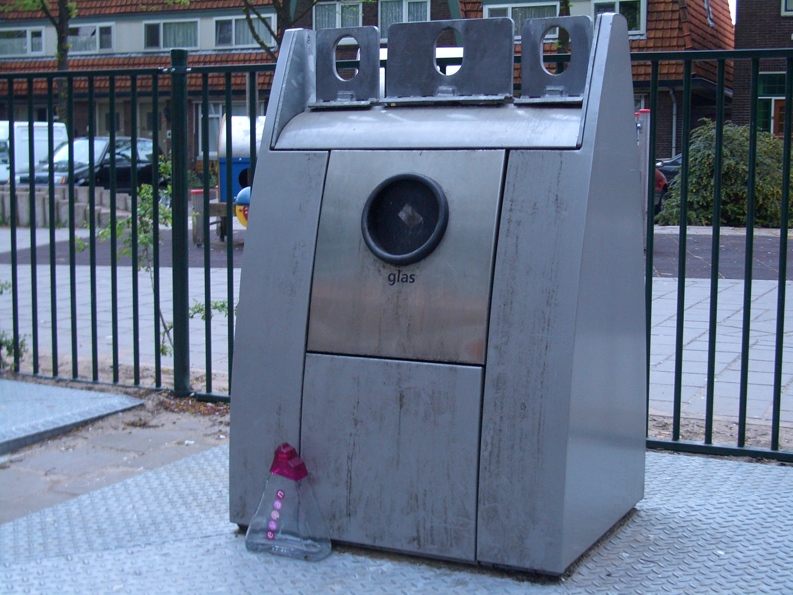 A glass recycling bin Zaandam (or maybe in the next town north of there, still within Zaanstad)